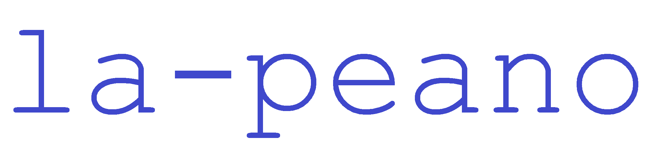 IETF language tag la-peano for latino sine flexione